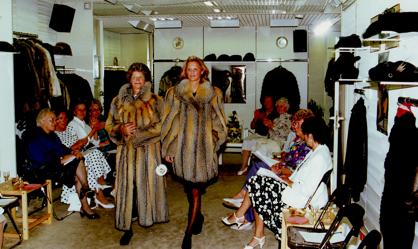 Furrier's, Pelze Hugendick in Schwelm/Westfalia, Germany